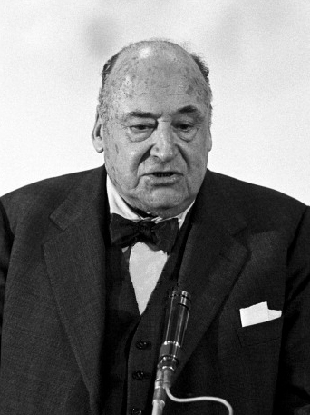 The Italian dramatist Riccardo Bacchelli speaks into the microphone; the writer has been invited to speak at the congress on resuscitation and related issues, in which doctors, scientists, theologians and philosophers are participating. Florence (Italy), January 1969.